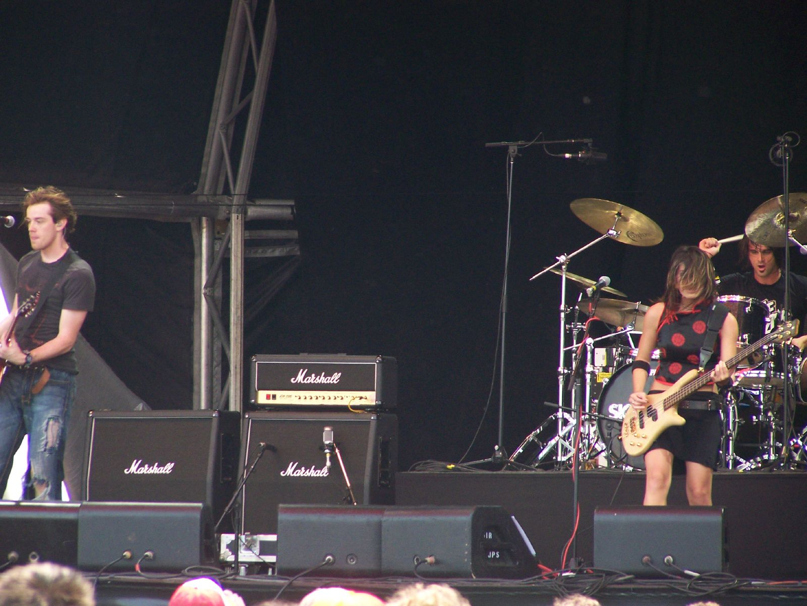 Sick Puppies performing at Big Day Out Perth 2007